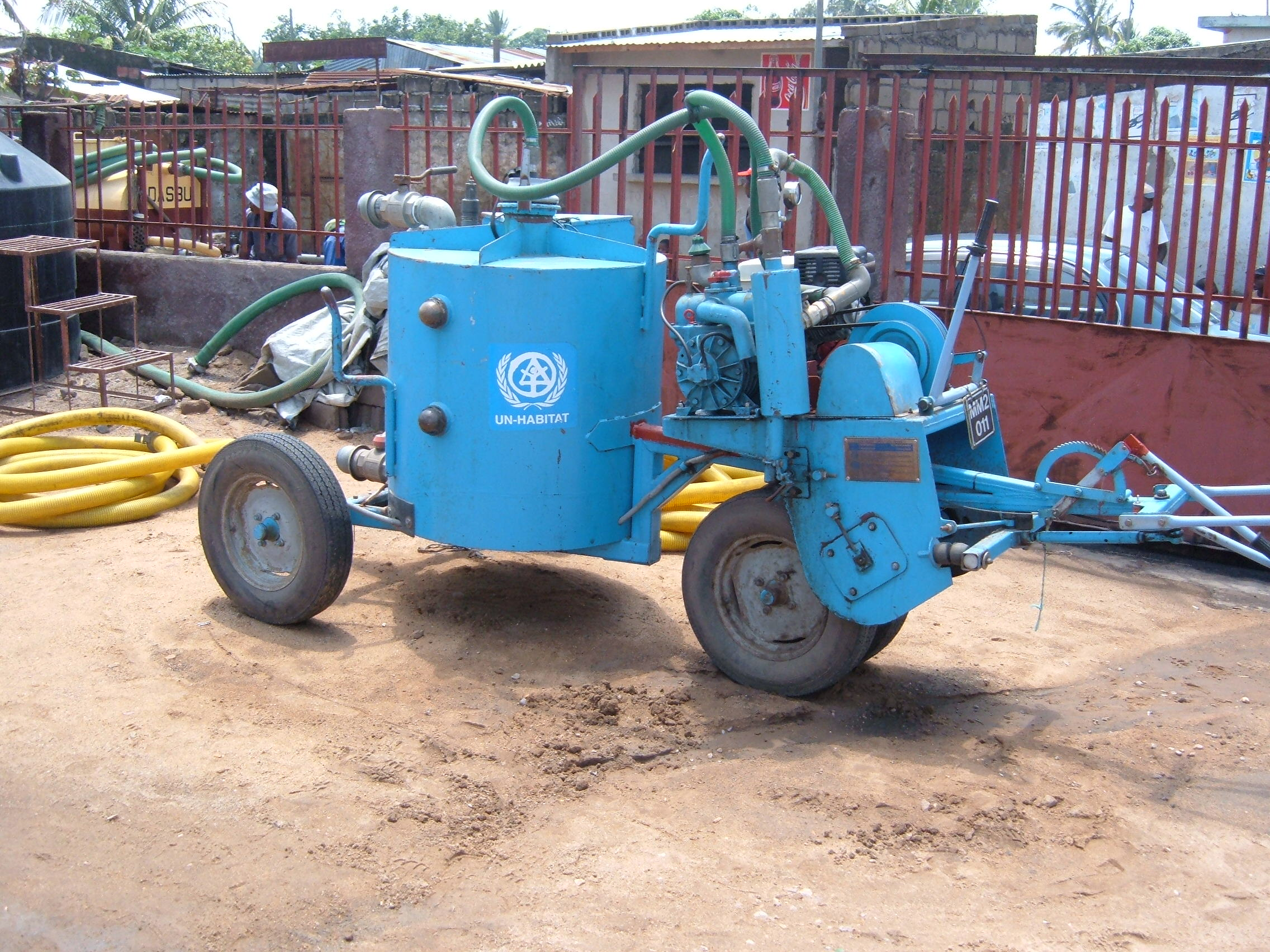 The "Vacutug" machine, designed to empty latrine pits where there is not enough space for a vacuum tanker